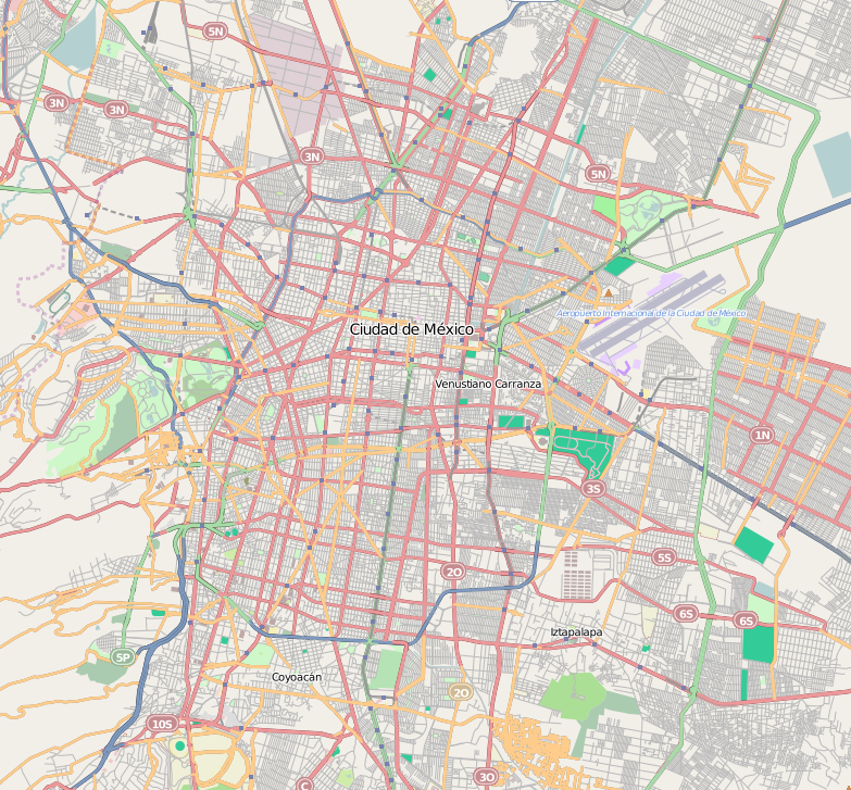 Map of Mexico City Geographic limits of the map: N:19.5113 ° S: 19.3215° W: -99.2381° E: -99.0212°